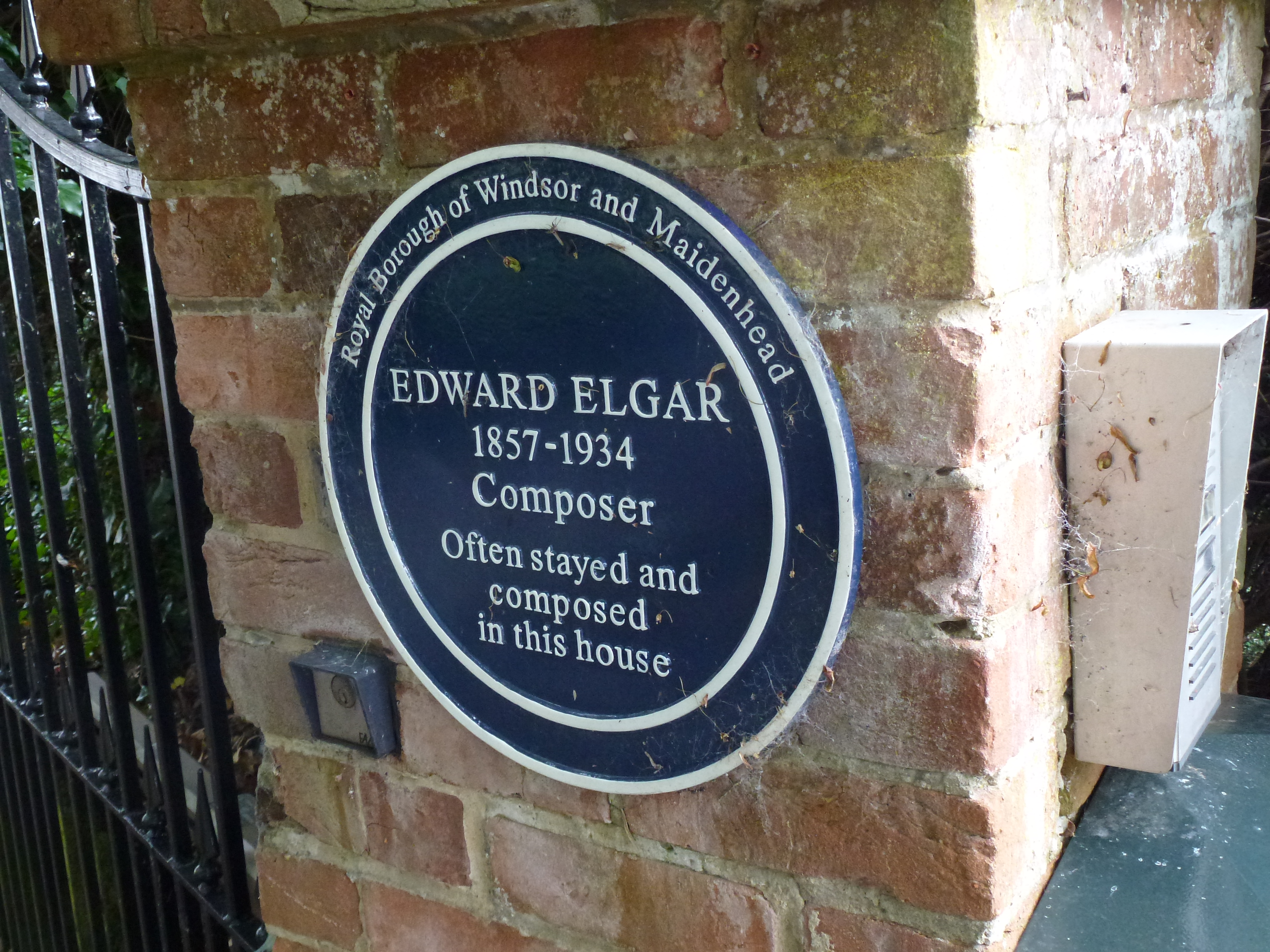 UK Blue Plaque associating Edward Elgar with a house in Bray-upon-Thames